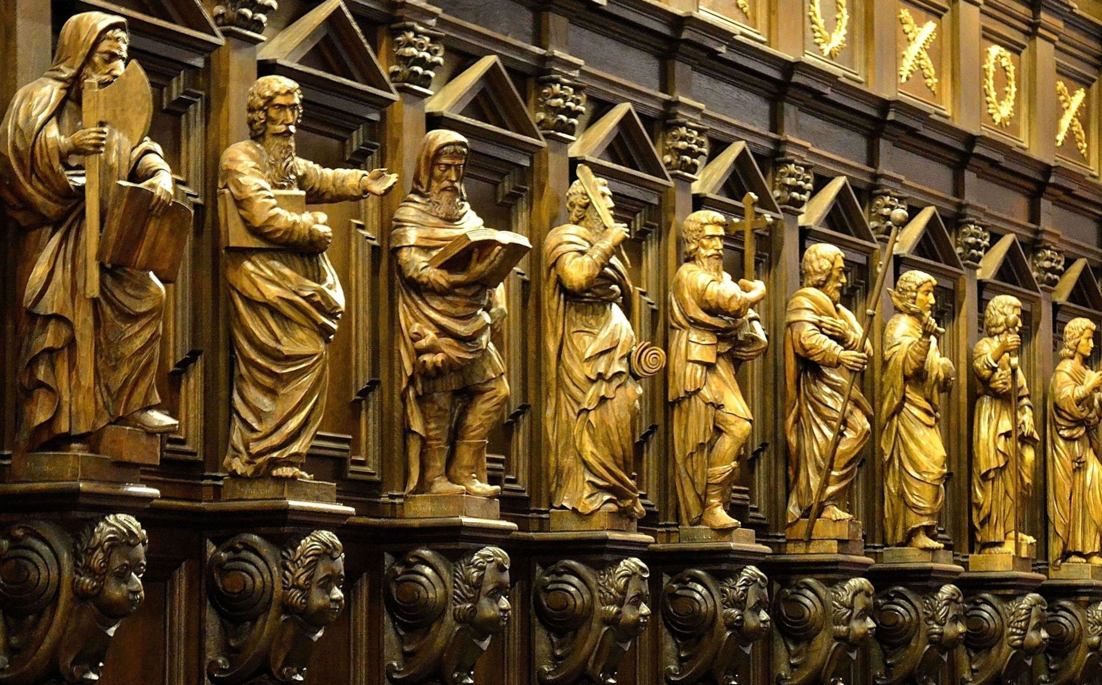 17th century wooden sculptures of saints (burnt 1944, reconstructed 1963-1973) in the canons' stalls at St. John's cathedral in Warsaw (listed in the Register of Historic Monuments on 1.07.1965, reference no. 571)